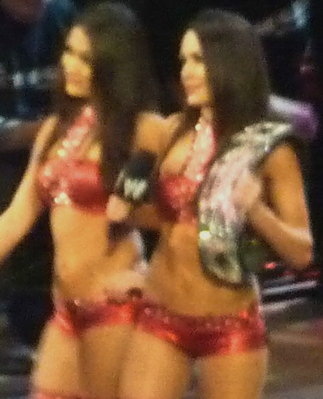 The Bella Twins at the WWE Raw taping on April 18, 2011 at the O2 Arena in London, England. Nikki (right) is holding the WWE Divas Championship.